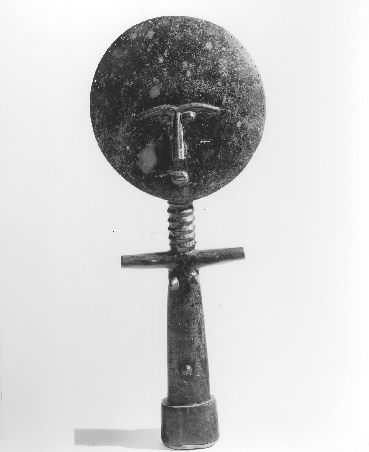 Fertility Doll (Akuaba)